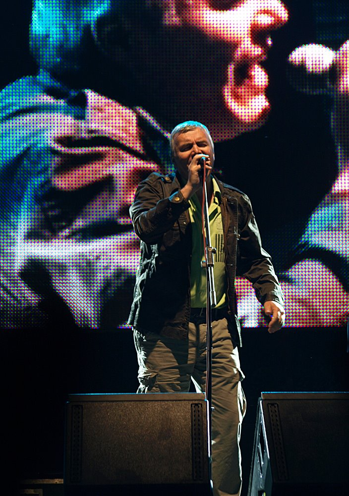 Radio City prijateljem 2008 concert